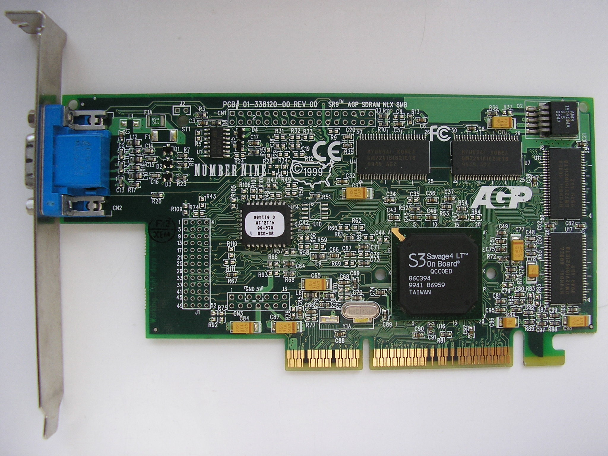 Number Nine SR9 AGP SDRAM NLX 8MB (with removed heatsink) 1999 (9951) PCB# 01-338120-00 REV 00 Video chip: S3 Savage4 LT (86C394) On the white sticker on back side: 11S01N2830ZJ19MV9102SK FRU09N5898 001 Inscription text in the PCB: "Working...Eight days a week" Text in the video BIOS (but not visiable at boot): "Number Nine Visual Technology SR9 ...is waiting to take you away"